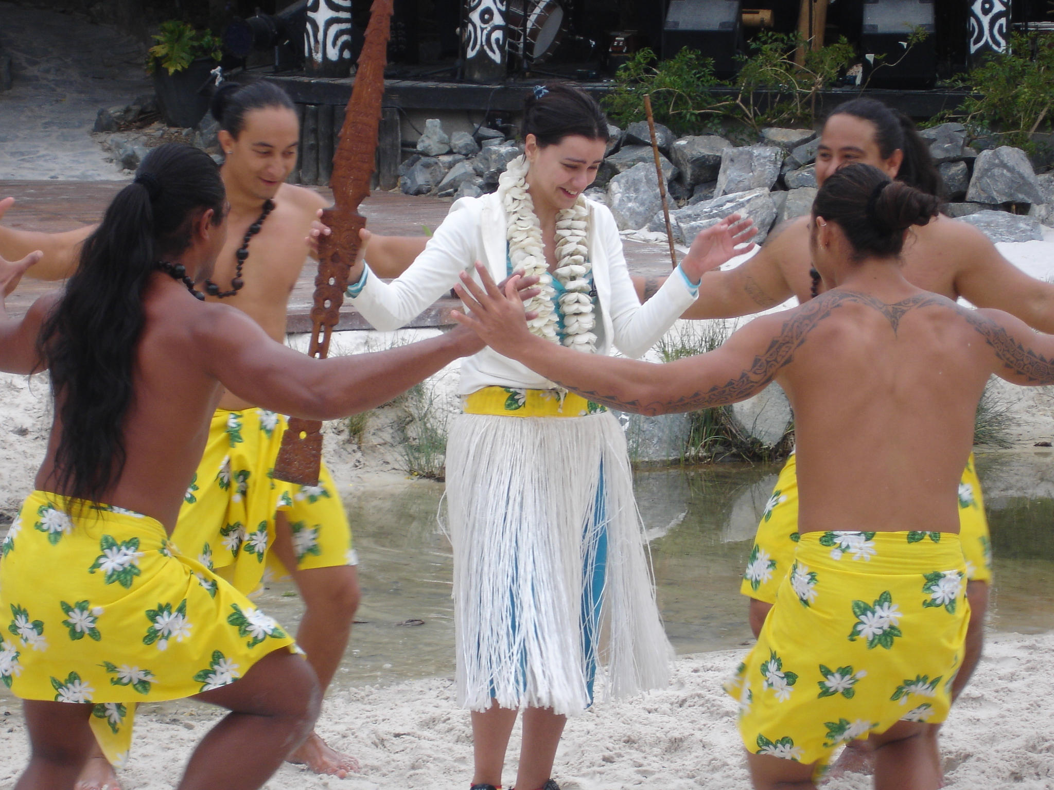 Espectáculo Aloha Tahiti no Port Aventura Park.